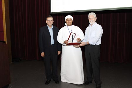 Third place in the “Business Judging” category ,4th UAE Software Development Trade Show ,Wollongong University , Dubai .2010